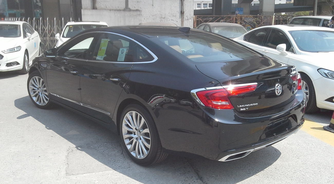 Buick LaCrosse III photographed in Shanghai, China.